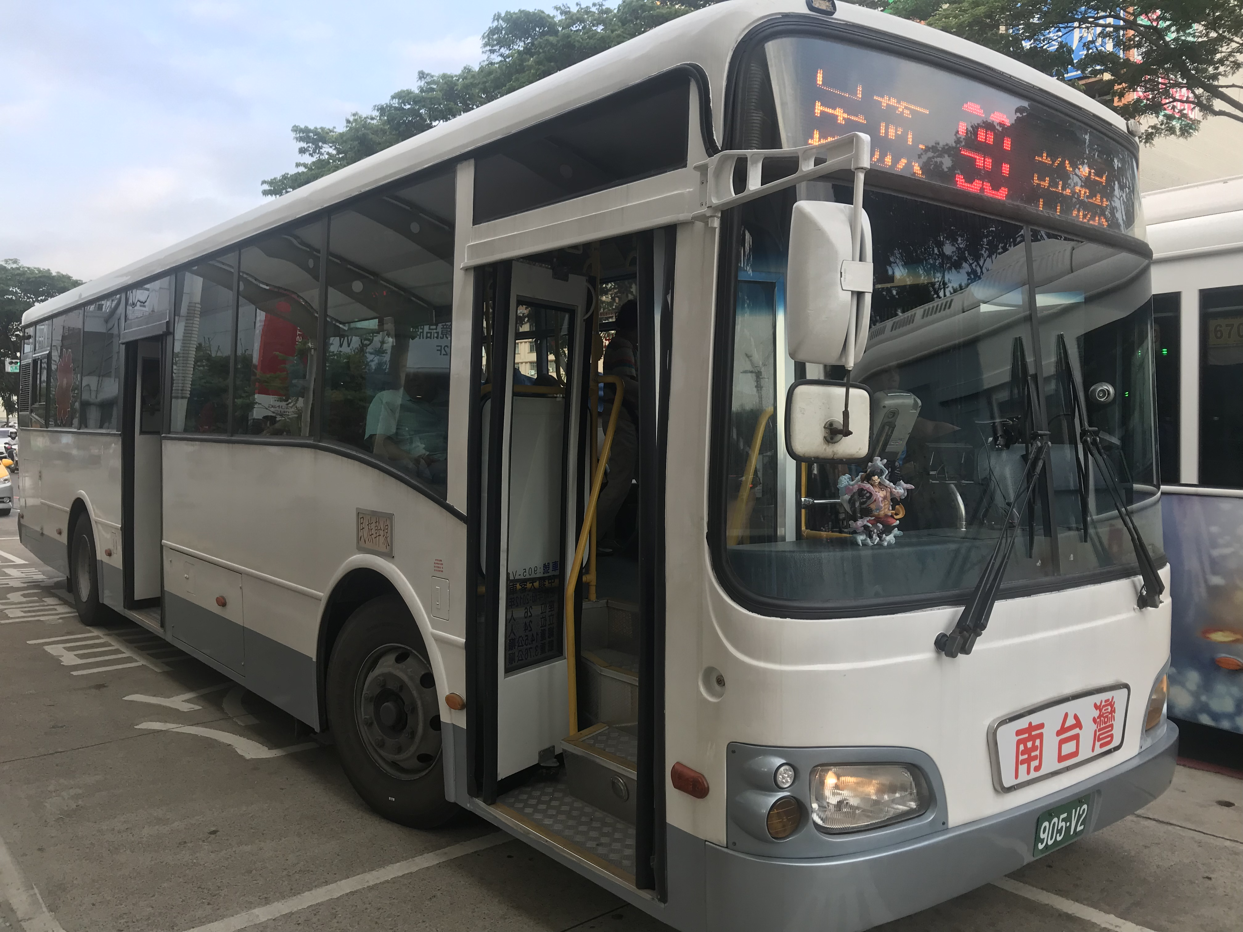 St bus 905-V2